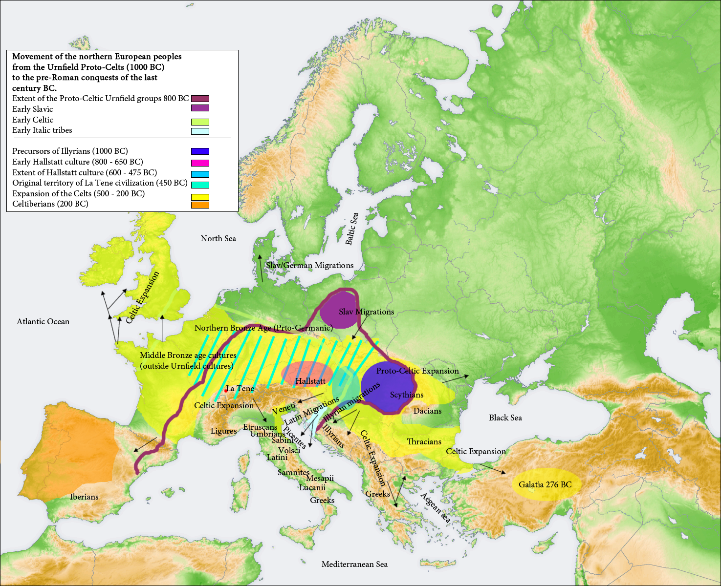 Map of Movement of the Northern European peoples from the Urnfield Proto-Celts (1000 bc) to the Pre Roman Conquests of the last century bc